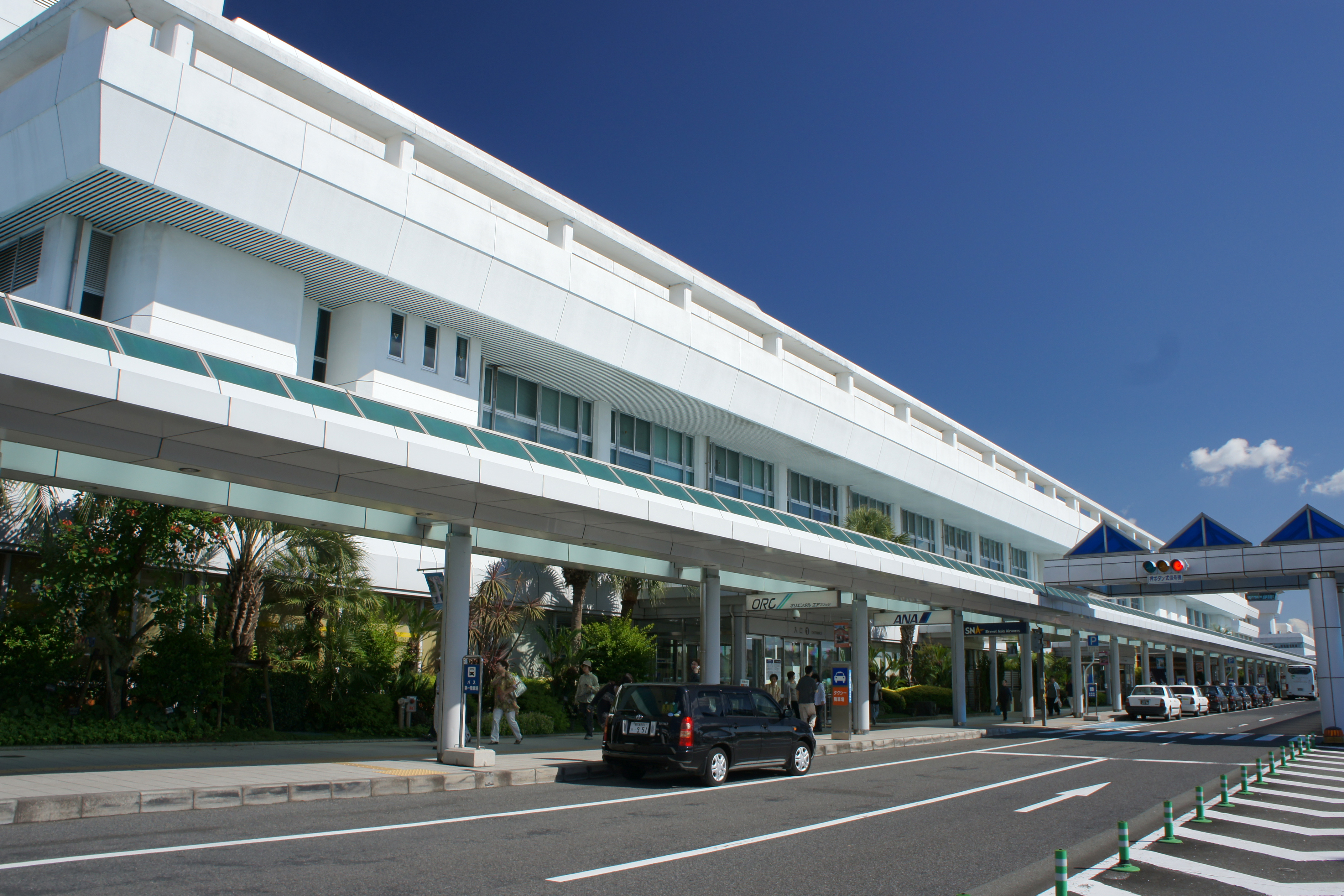 Kagoshima Airport in Kirishima, Kagoshima prefecture, Japan.